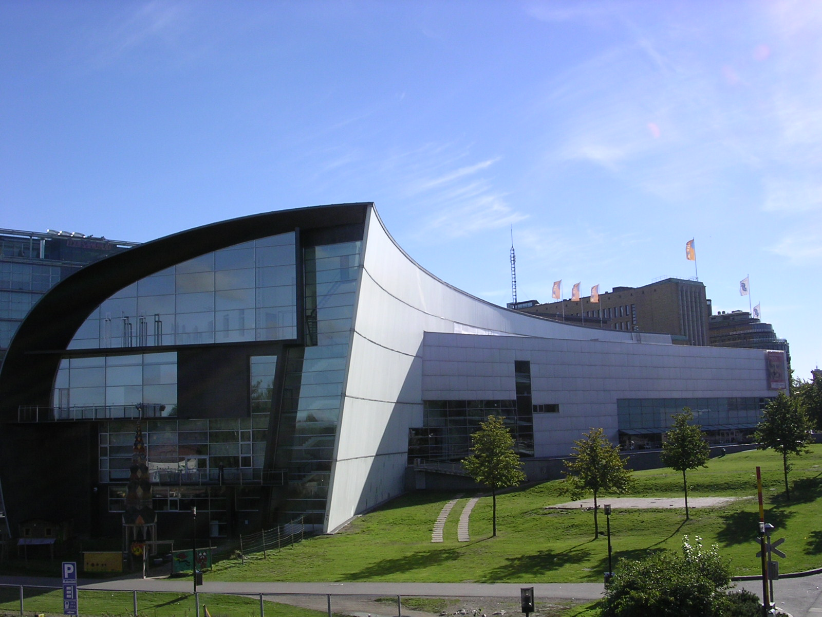 Museum of Contemporary Art Kiasma in Helsinki, Finland